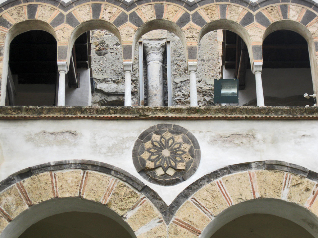 San Matthew Cathedral, Salerno, Italy The arches of the atrium